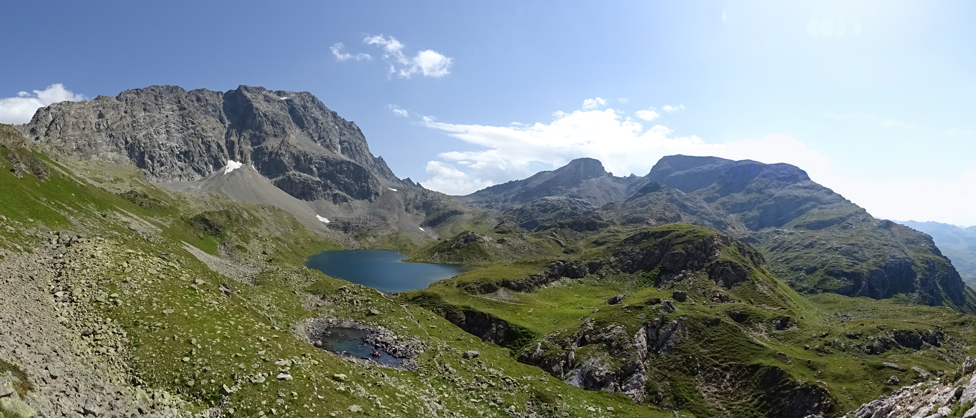 Leg Grevasalvas, Piz Lagrev, Piz d'Emmat Dadaint and Piz d'Emmat Dadora (Surses, Grison, Switzerland)